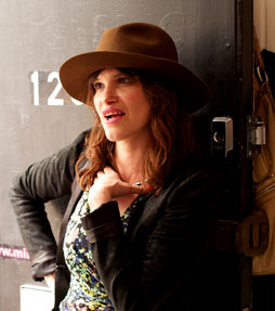 Minnie Weisz at London Photography Festival Launch 2012